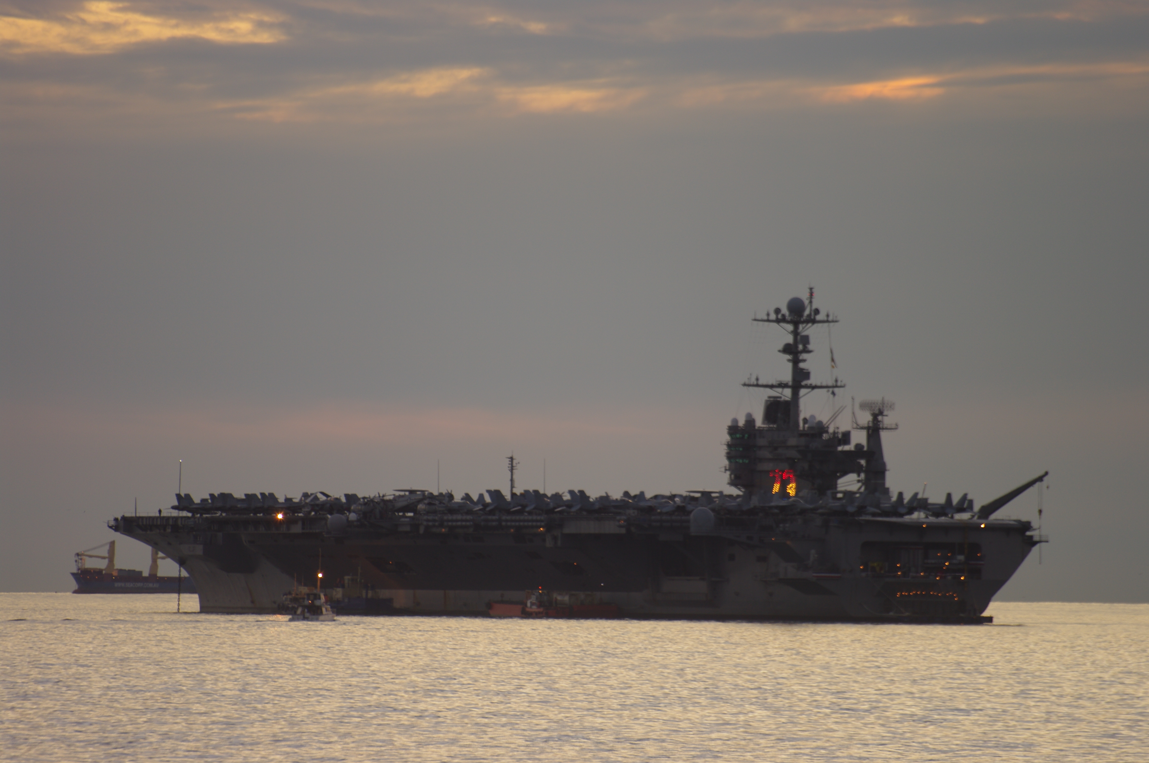 USS Gorge Washington CVN-73, anchored in Gage Roads Fremantle Western Australia